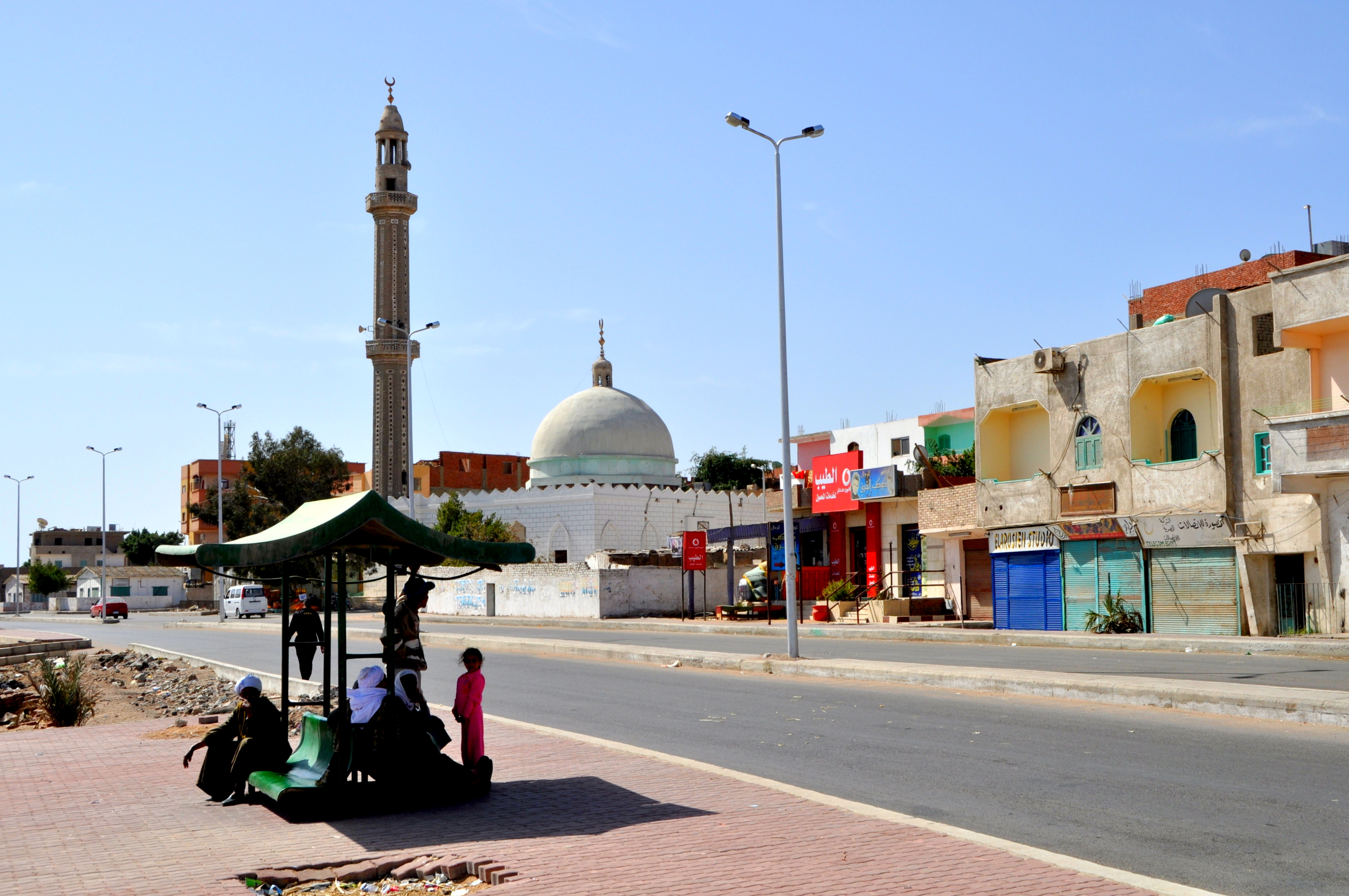 Photos taken from cruise ship and on land